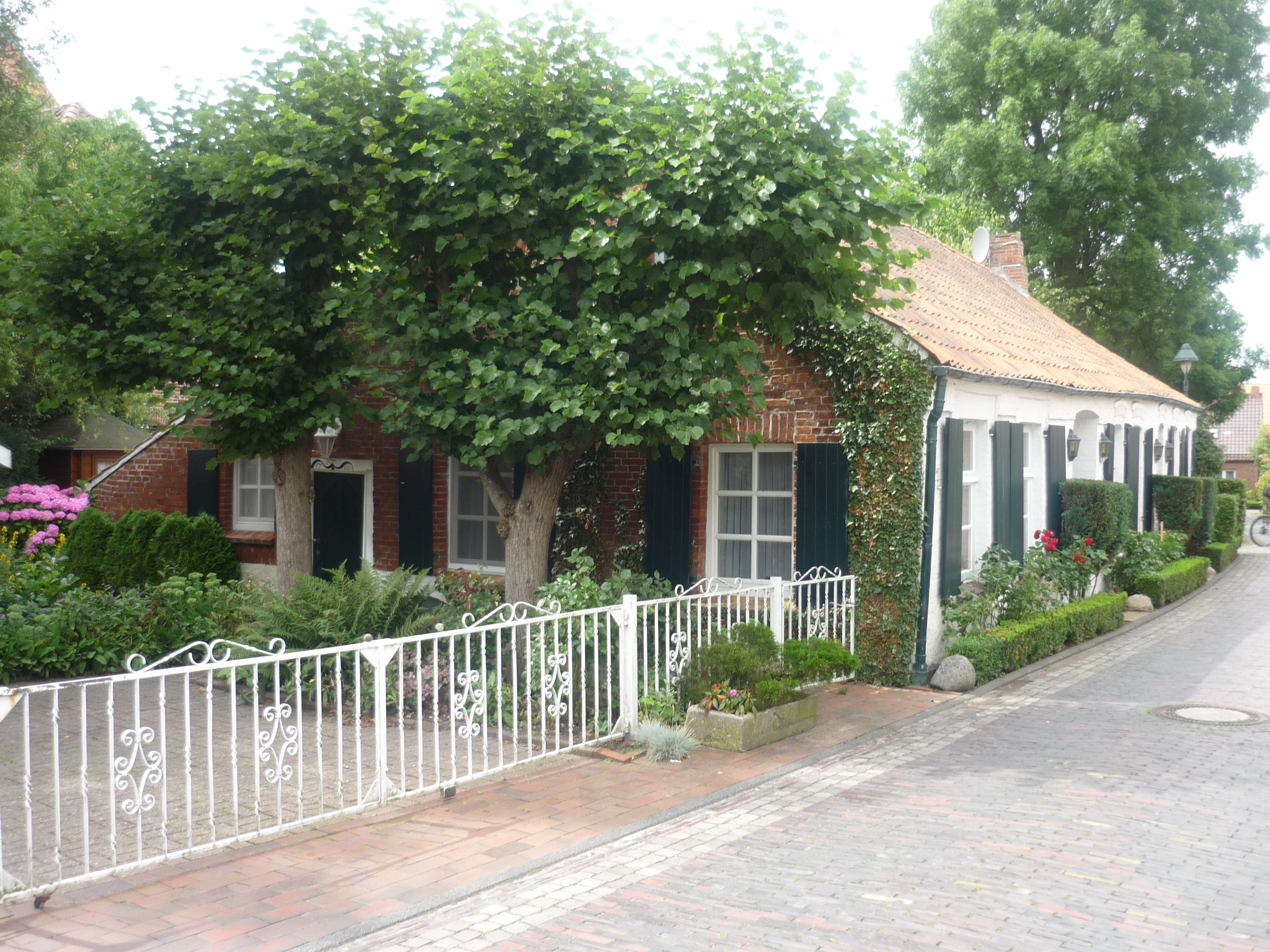 Rysum